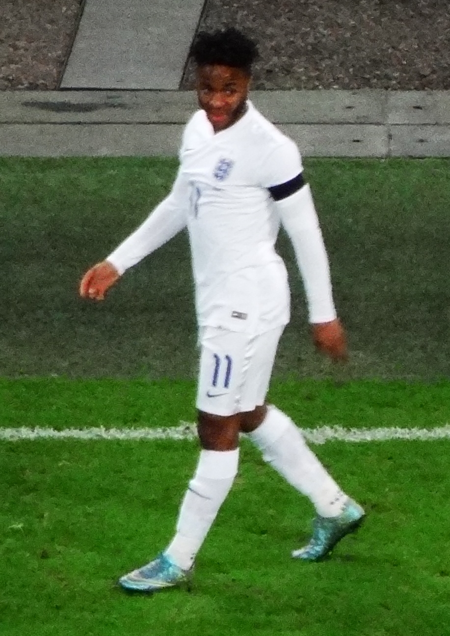 Two 11s - England's Raheem Sterling and France's Anthony Martial